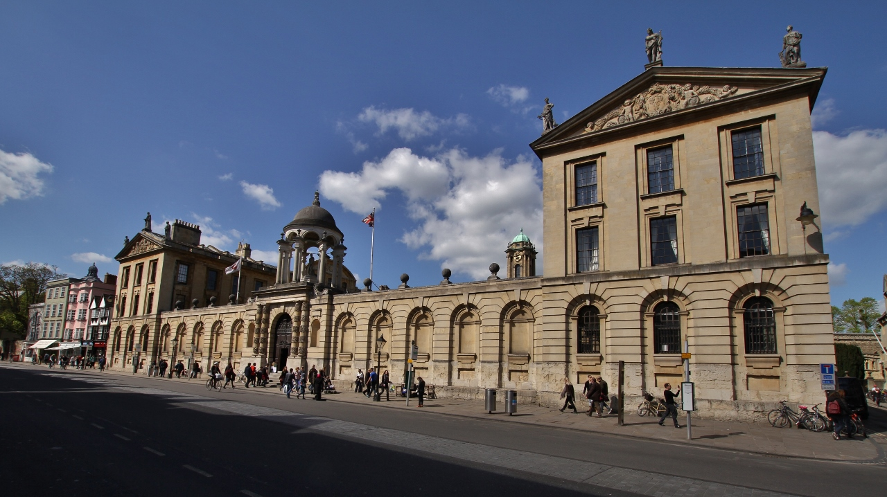 South range of The Queen's College, High Street, Oxford, seen from the southeast